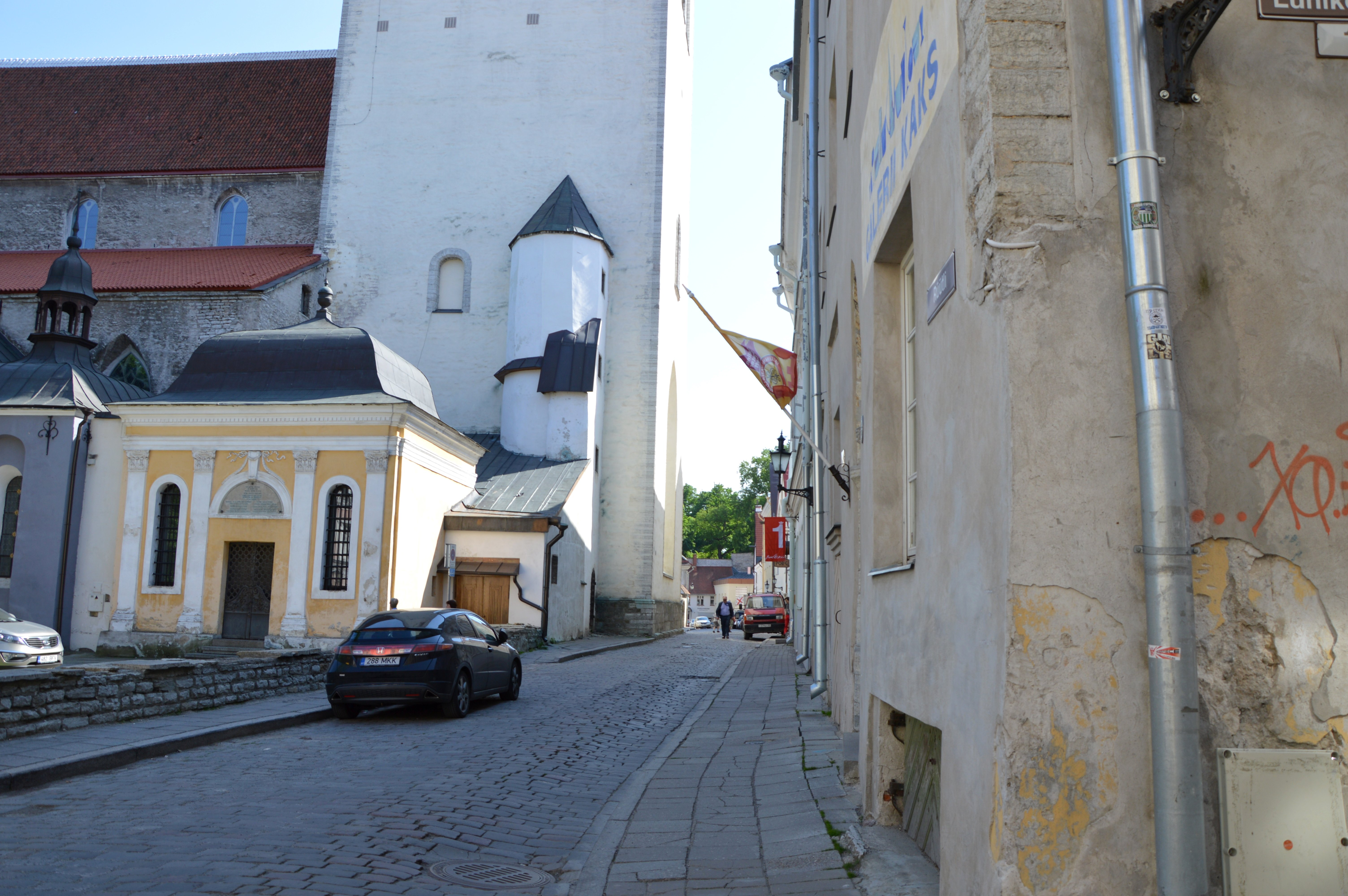 Tallinn old town